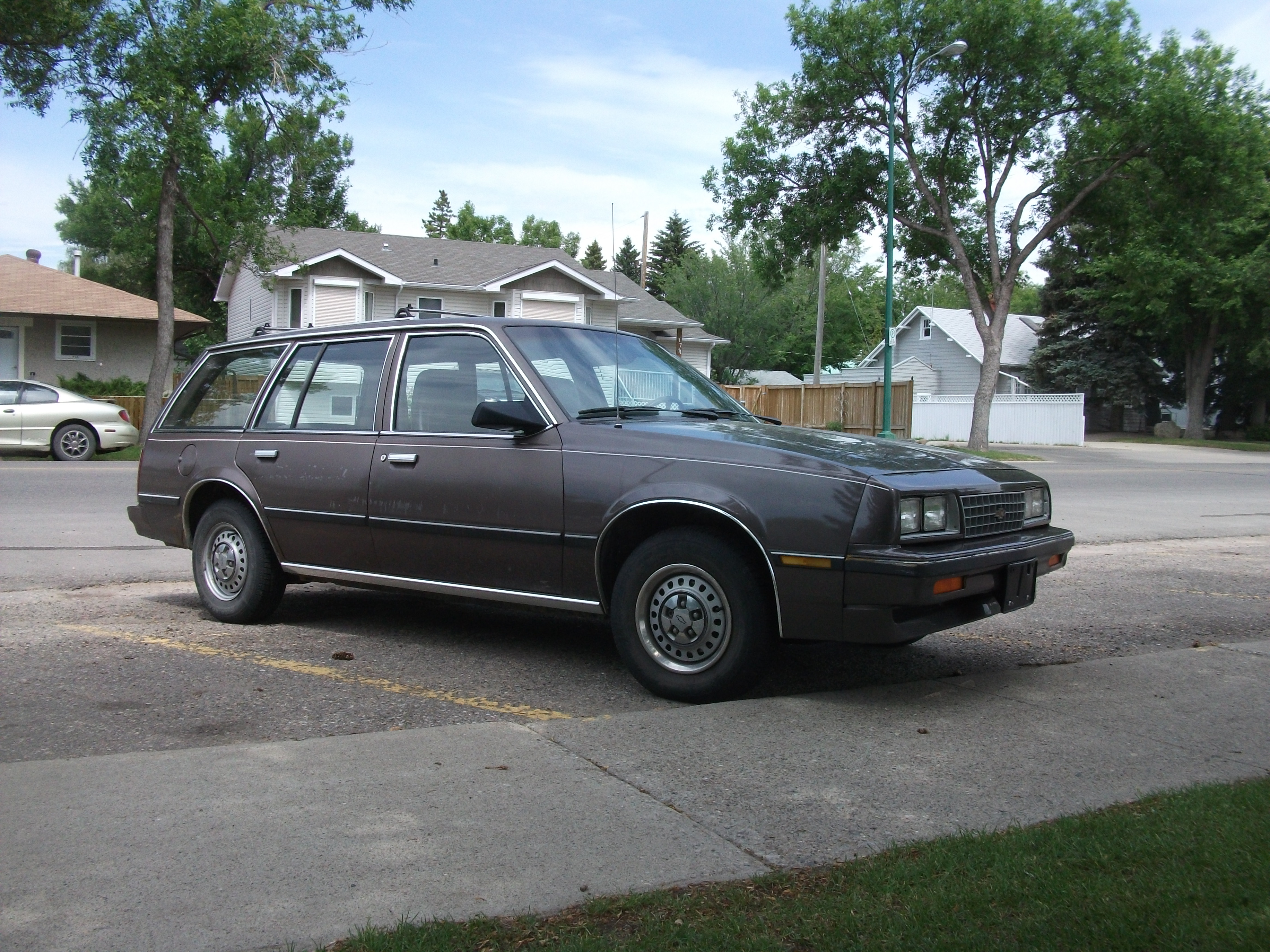 80s Chevrolet Cavalier Station wagon in brown still in decent shape.